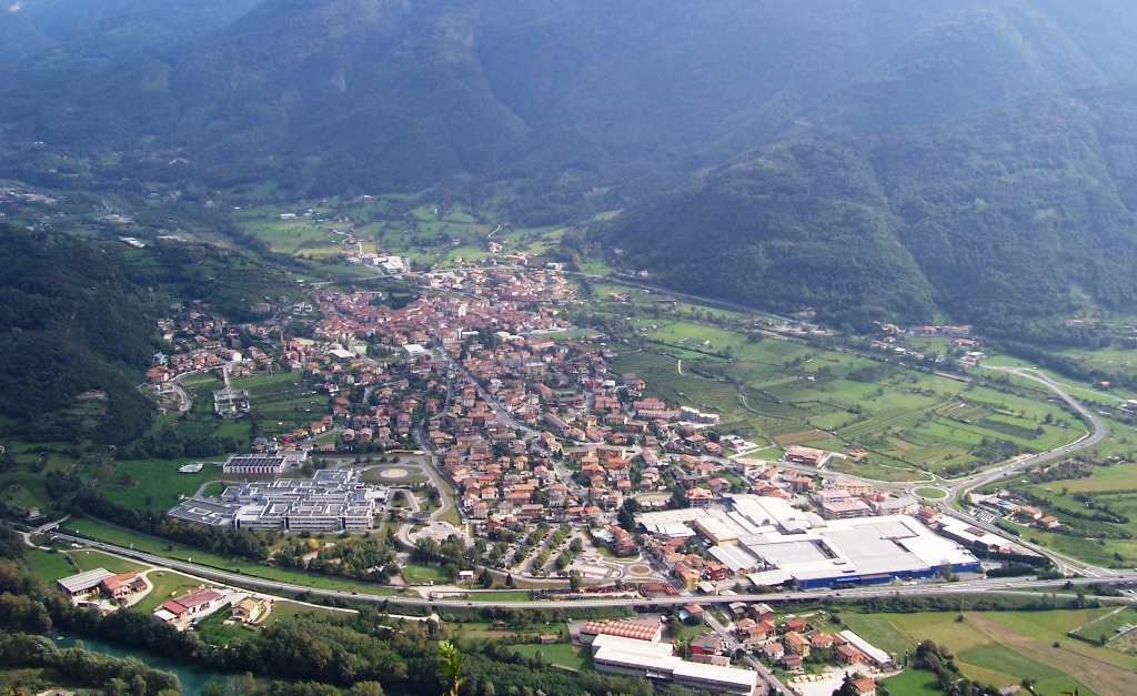 Panorama. Esine, Val Camonica